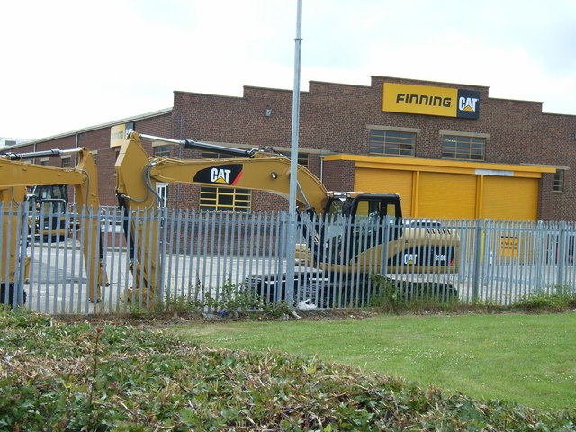 Finning-Caterpillar at Desford